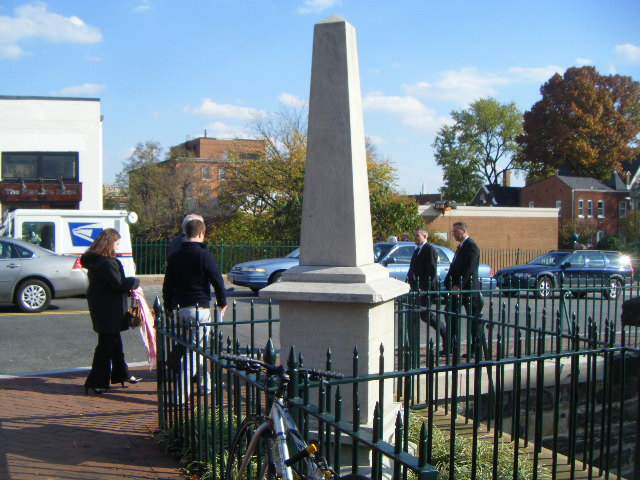 The Chesapeake and Ohio canal monument located near the canal's beginning in Georgetown, DC